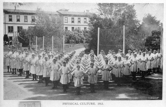 Physical education class at Nelson College for Girls - Photographer unidentified, 1913 Reference number: MNZ-2817-1/4-F Unidentified photographer Copy negative Making New Zealand: Negatives and prints from the Making New Zealand Centennial Collection, Alexander Turnbull Library Find out more about this image on our Manuscripts + Pictorial website